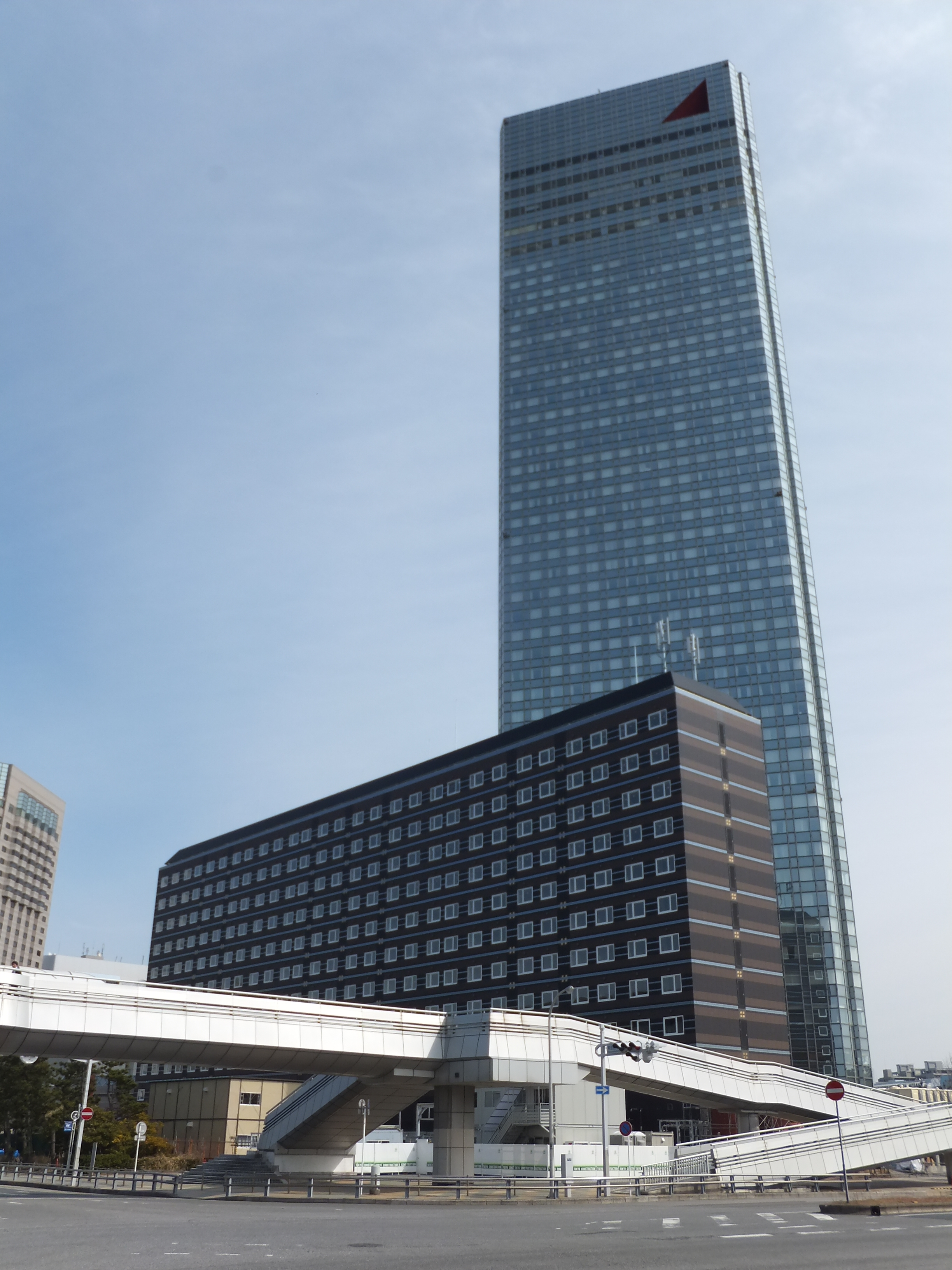 APA Hotel&Resort Tokyo-Bay Makuhari, in the city of Chiba, Japan